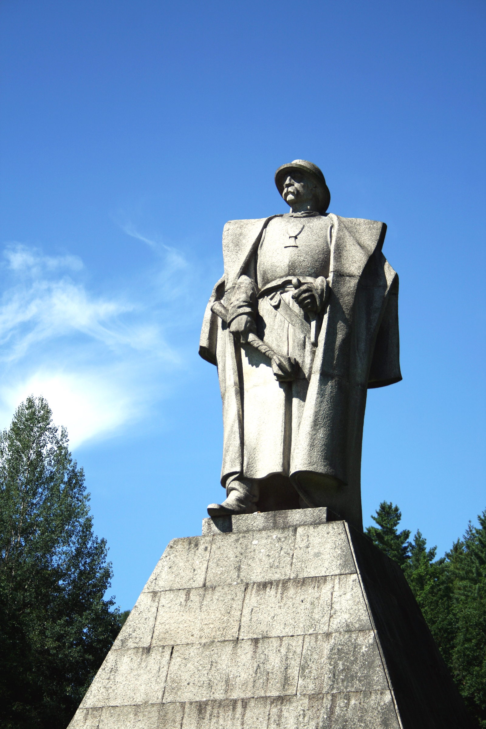 Monument of commander of Hussite army Jan Žižka near Trocnov, South Bohemia, Czech Republic, academically sculptor Josef Malejovský (granite of Liberec), 1960